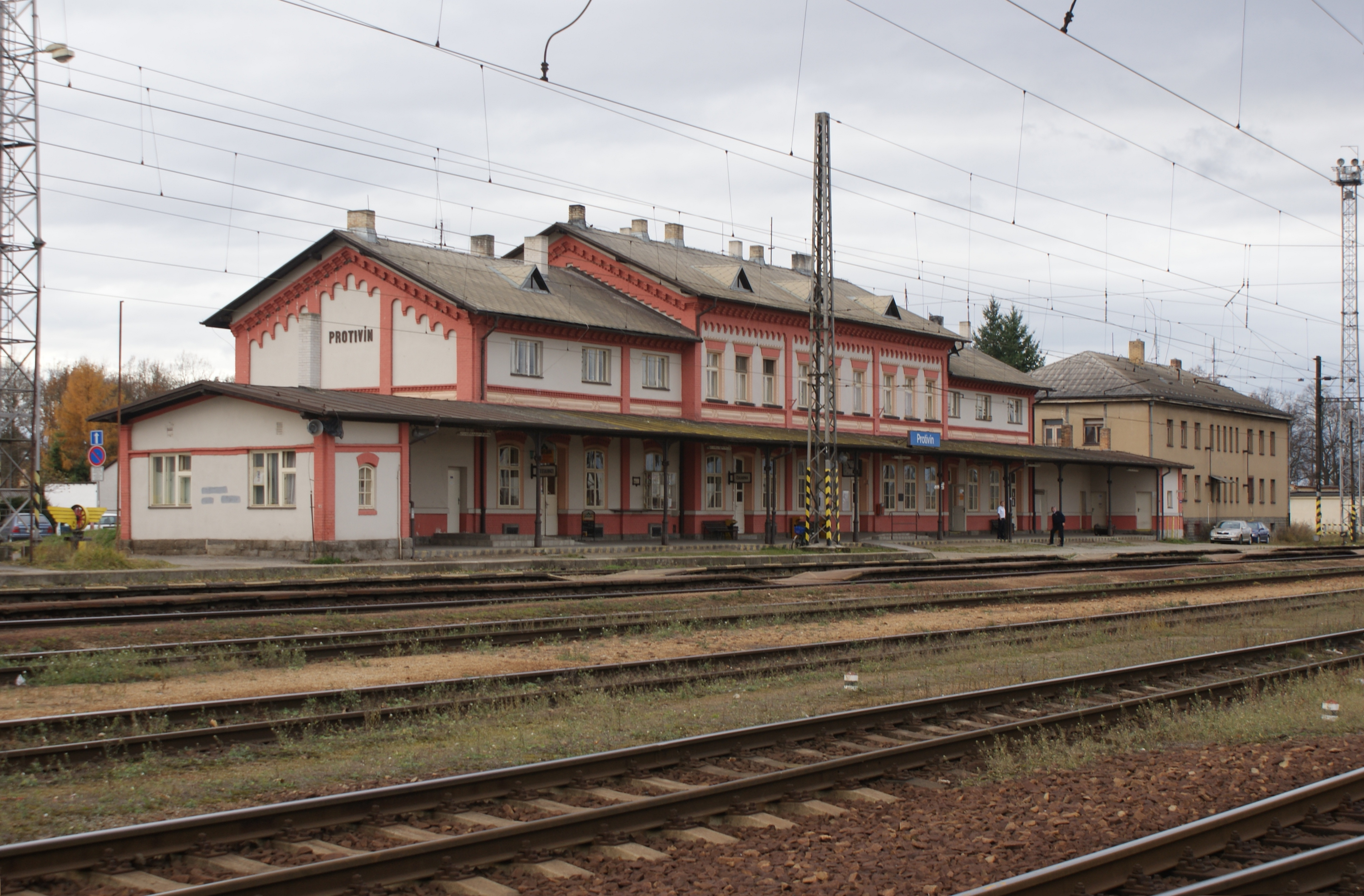 Protivín town in Písek district, Czech Republic, the train station seen from the north.